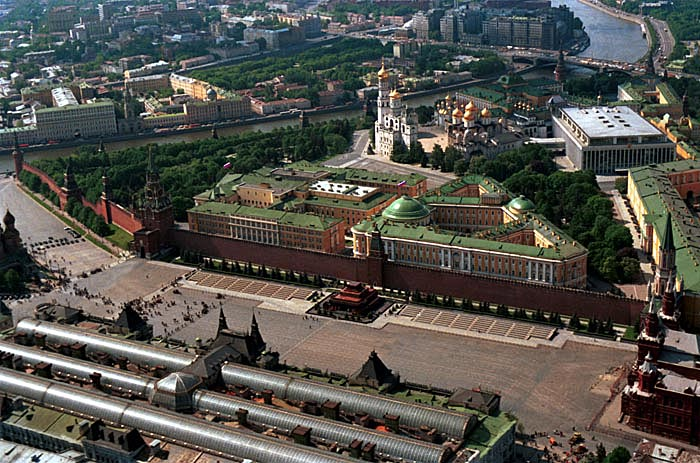 Moscow, Kremlin. Bird's Eye View from the East.